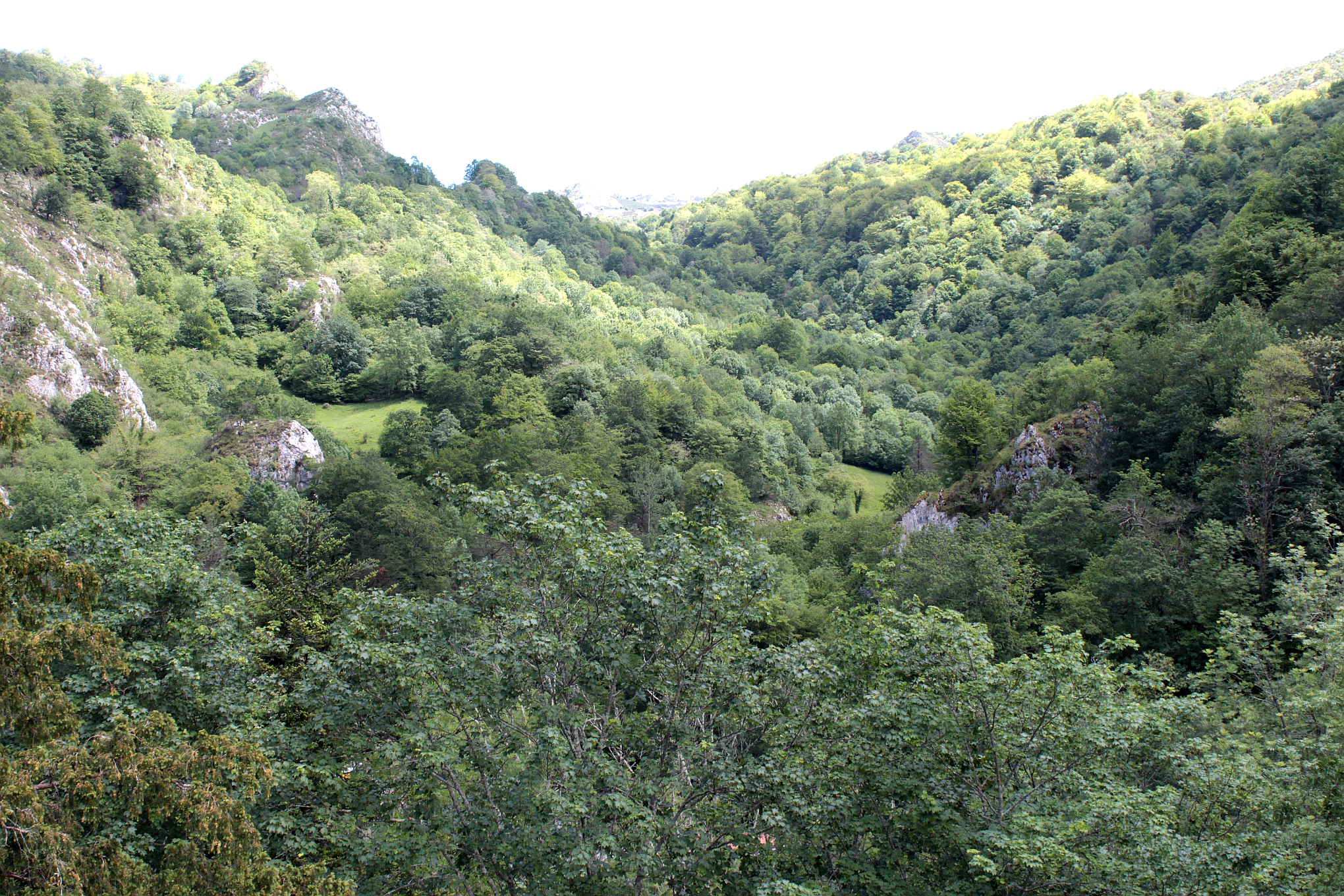 This is the lay of the land, where the :en: Battle of Covadonga|battle of Covadonga took place. View south from Covadonga